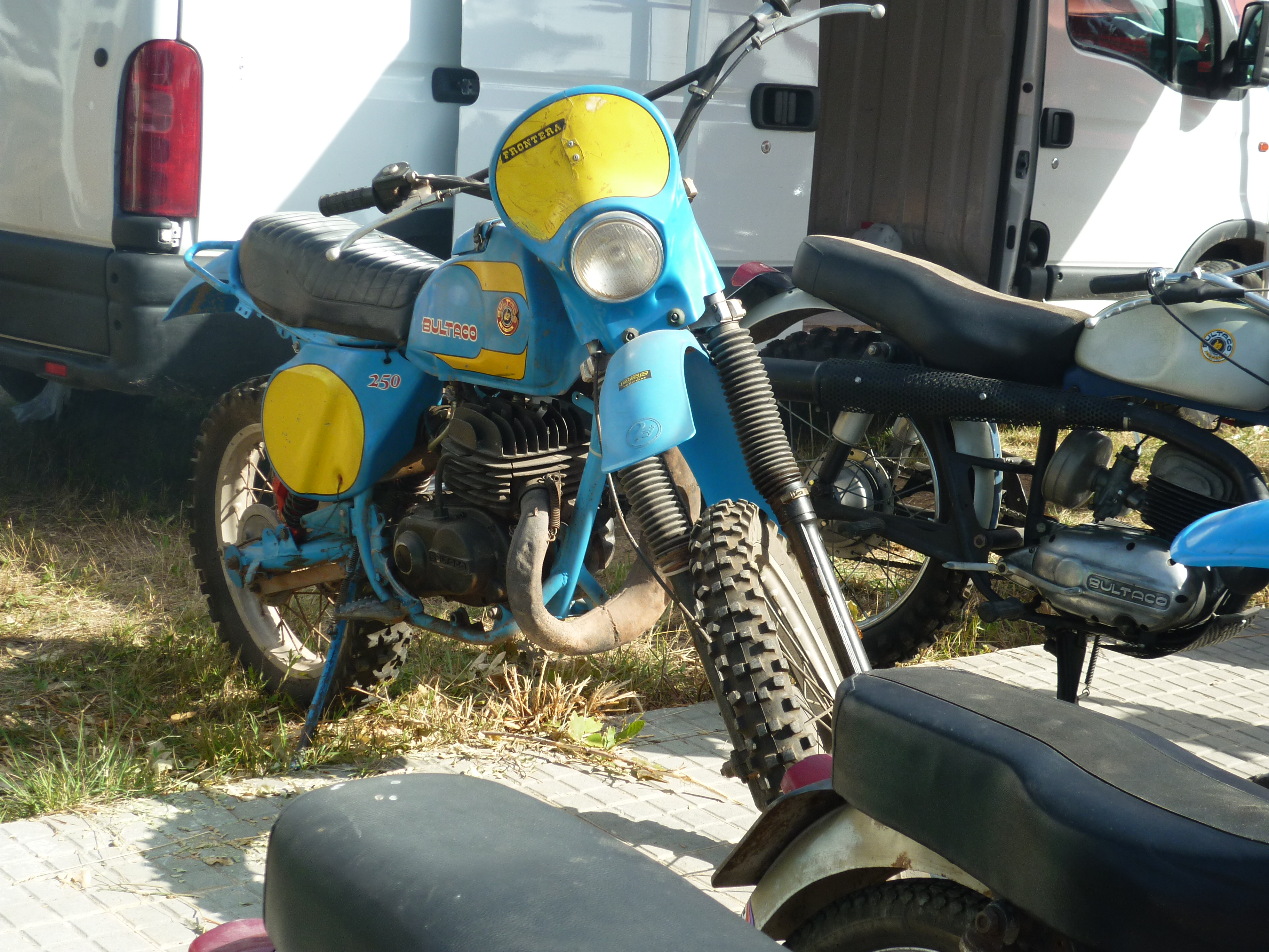 In blue: Bultaco Frontera MK11 250, 1978